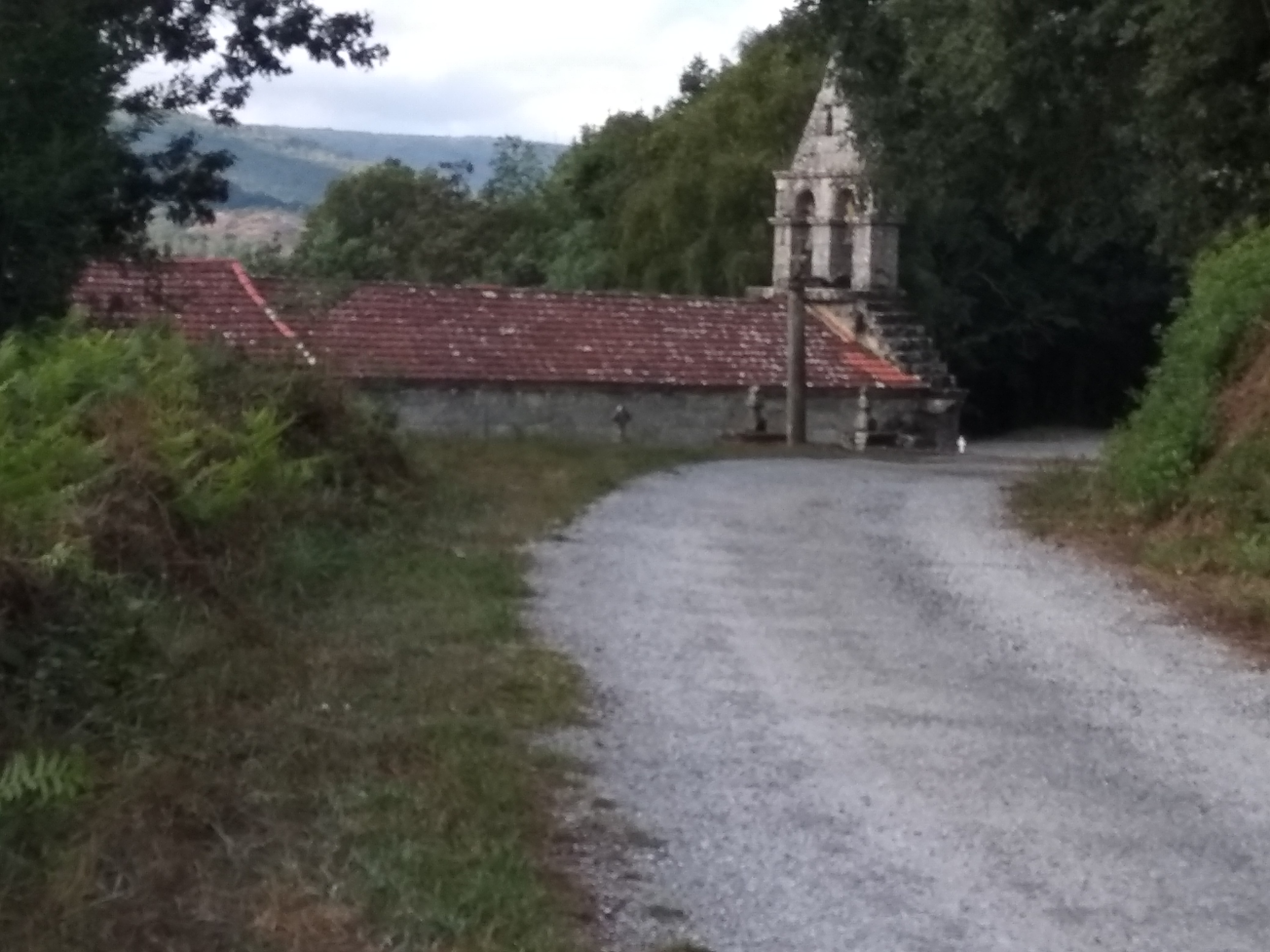 Eglise